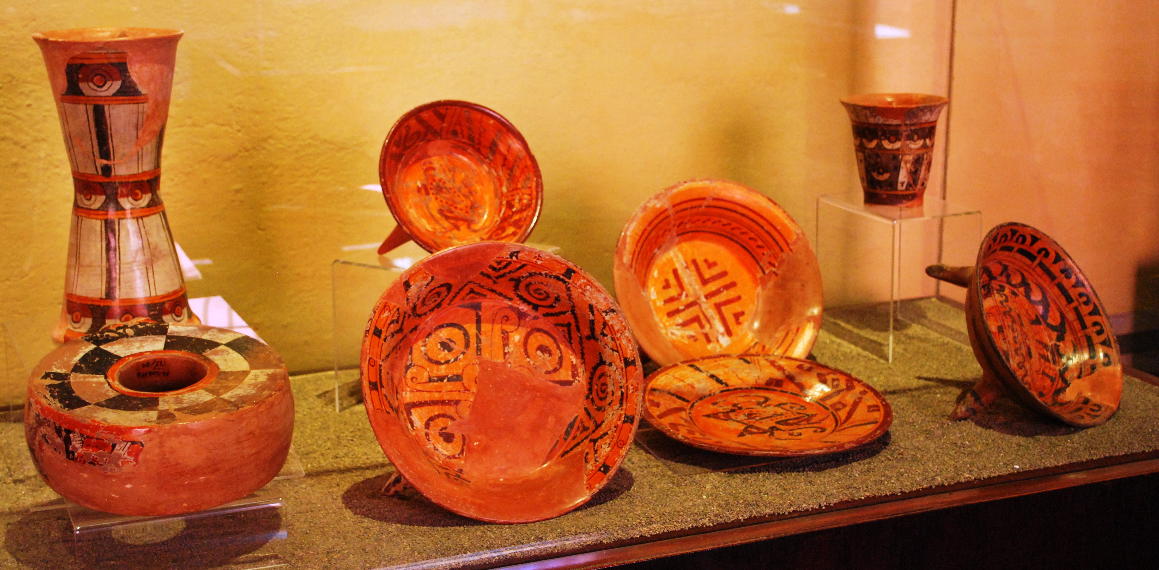 Ceremonial ceramics at the Tlaxcala Regional Museum